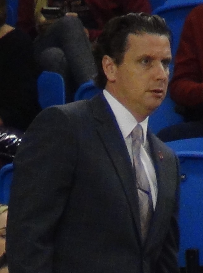 Barret Peery, then associate head coach of Santa Clara University men's basketball, during a game at San Jose State University.